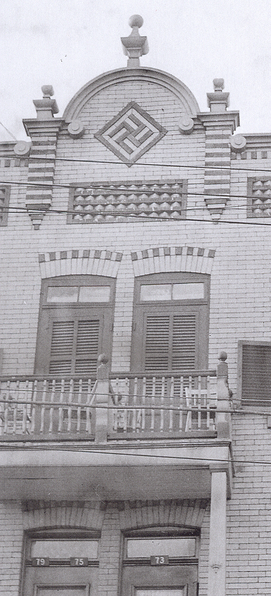 House at 75-81 Troy Ave with swastika brickwork, Verdun. Montreal, Canada.